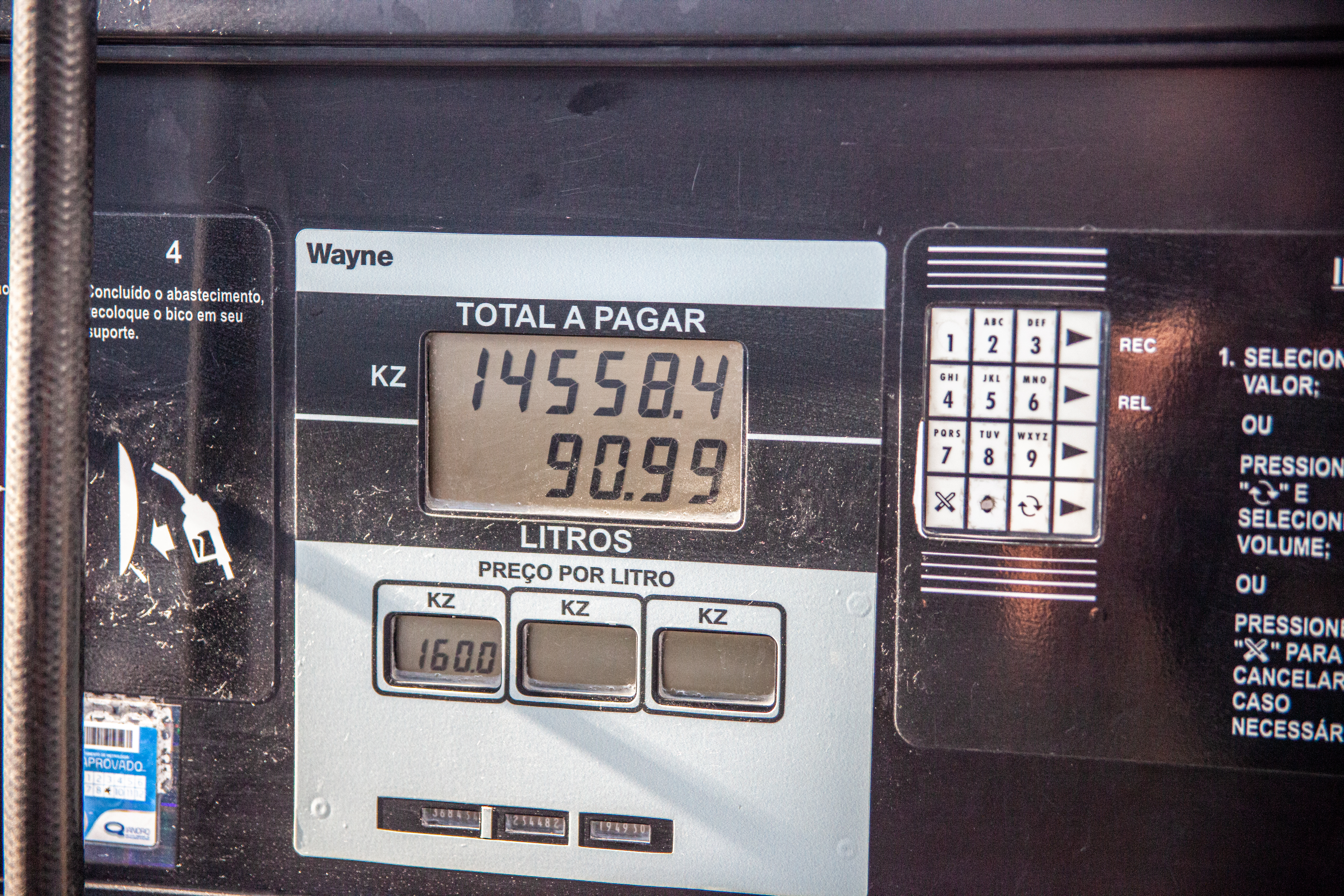 Petrol price in Angola This is an image with the theme "Africa on the Move or Transport" from: Angola